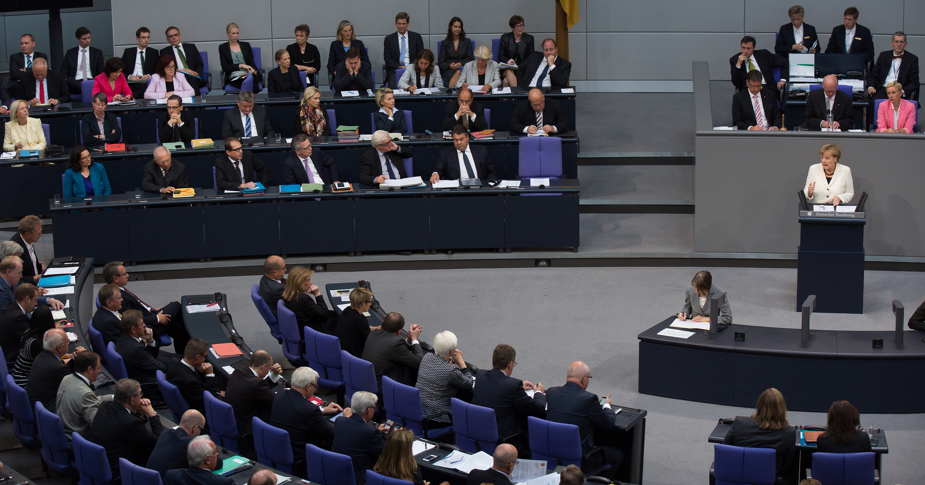 Picture taken during Wikipedia Bundestag project 2014. Third Merkel cabinet.